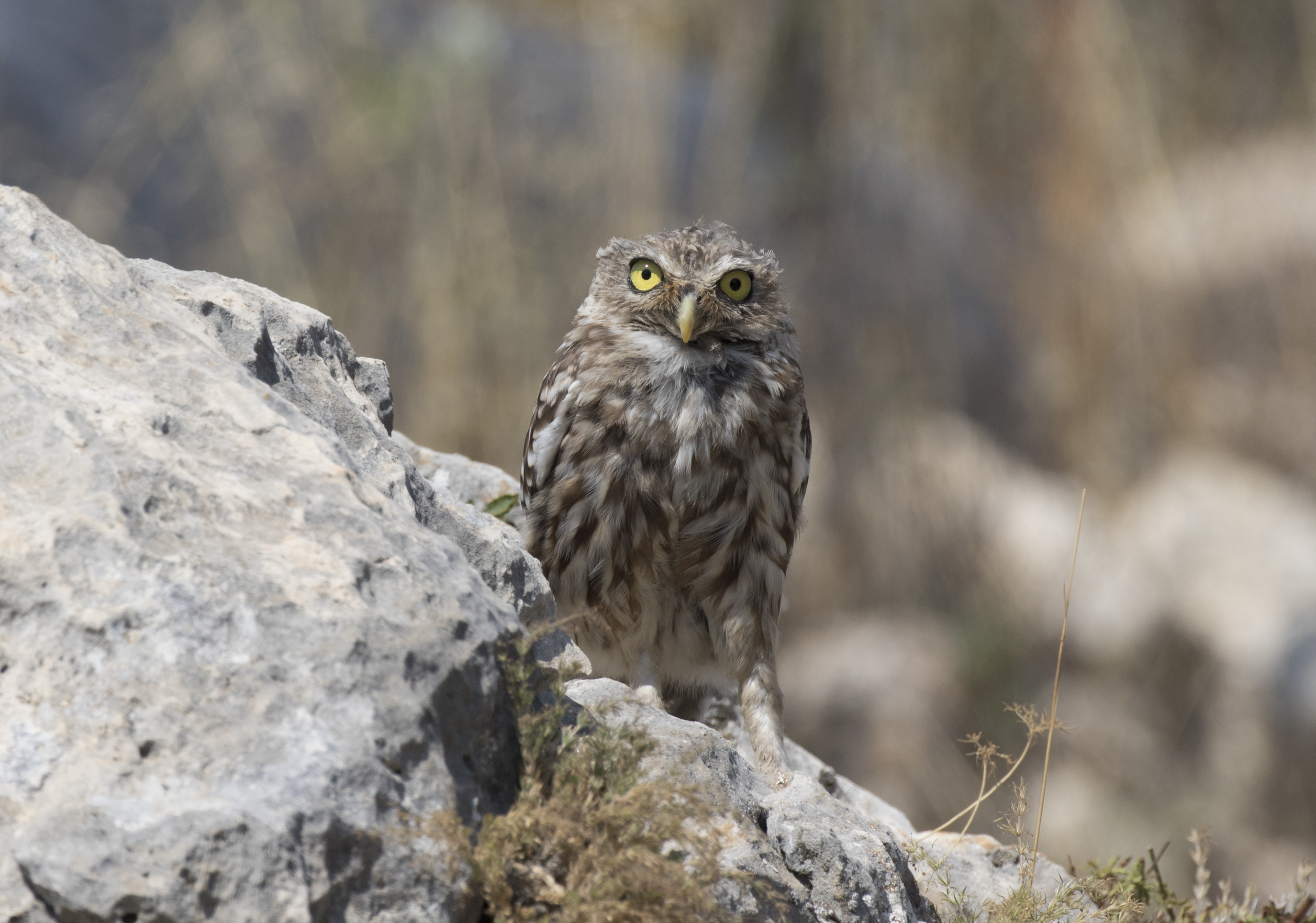 A Little owl (Athene noctua). Cambazlı, Silifke - Mersin, Turkey.